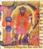 Totila